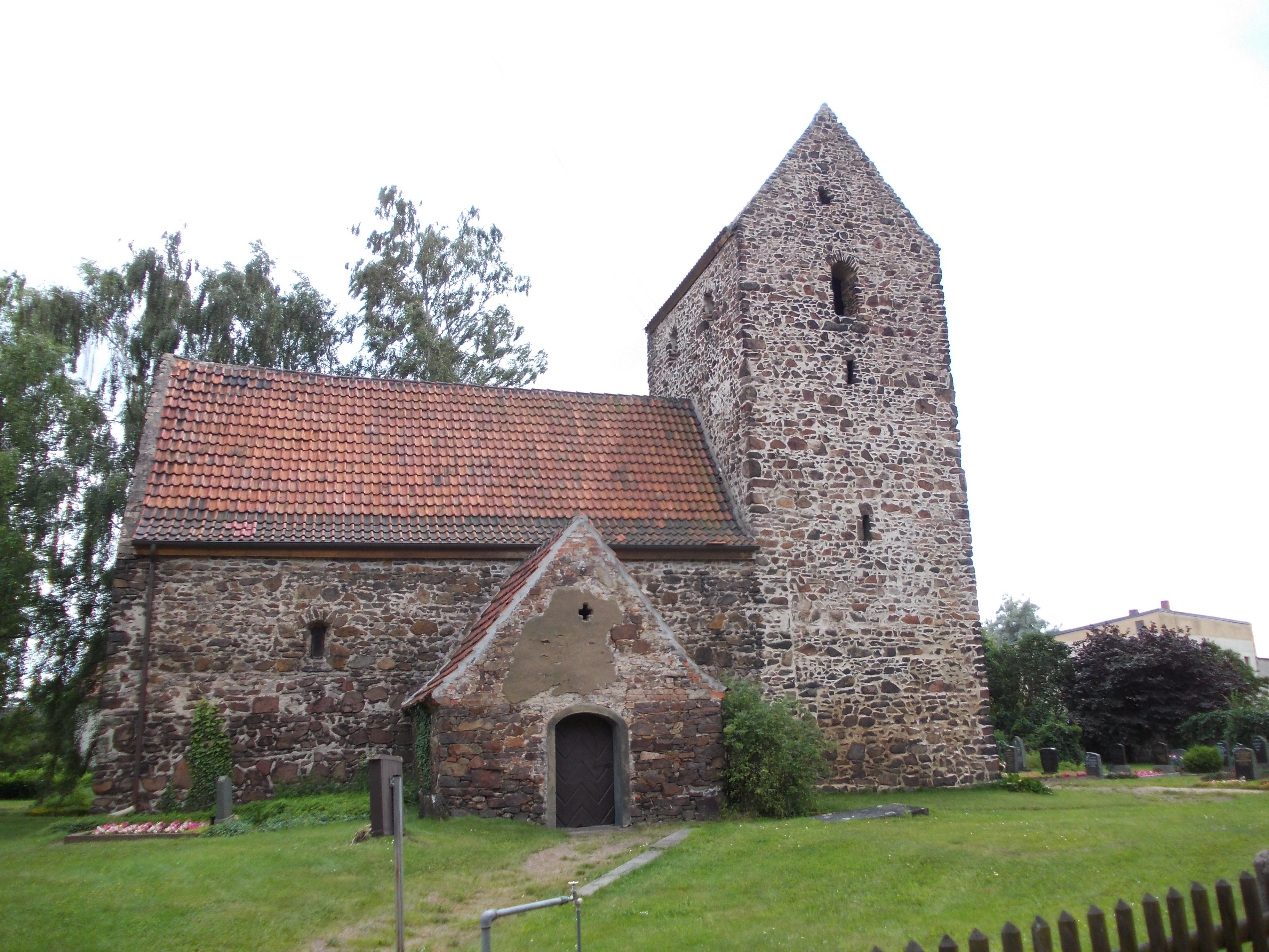 St. Simon and Jude Church in Eismannsdorf (Landsberg, district: Salekreis, Saxony-Anhalt)